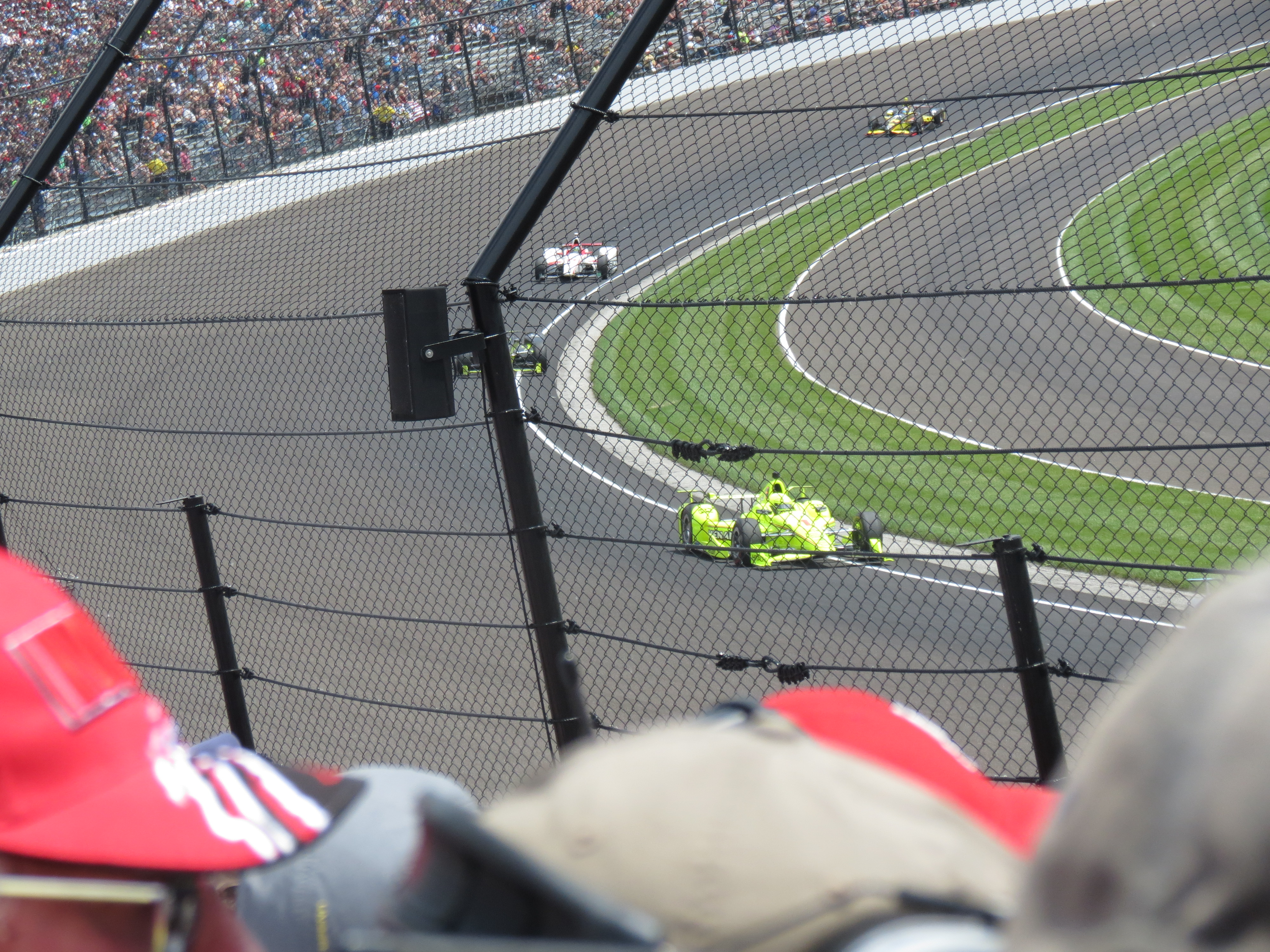 2017 Indianapolis 500-Mile Race